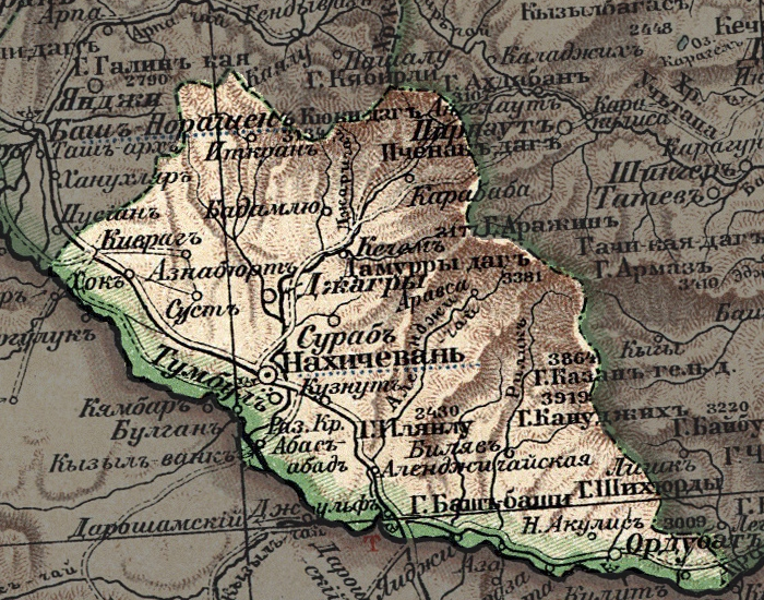 A highlighted map from 1903 of the Nakhchivan uyezd within the Elisabethpol governorate.